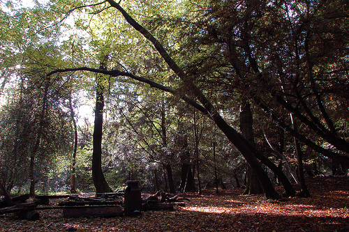 Leigh Woods, Bristol. Larger version available here, but I'm not relicensing that.